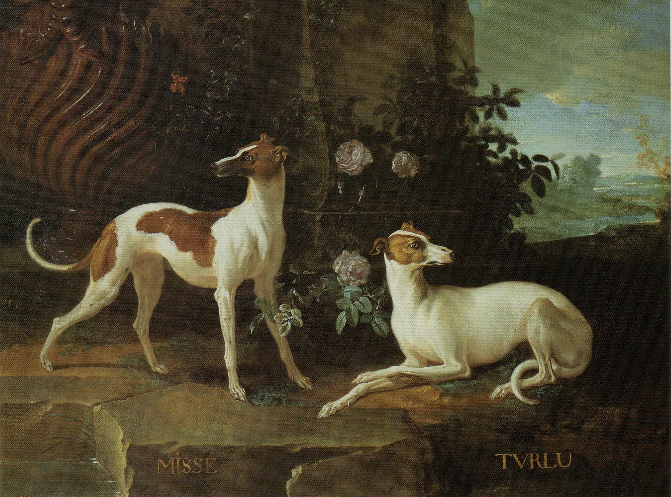 "Misse and Turlu, Two Greyhounds Belonging to Louis XV" by Jean-Batiste Oudry